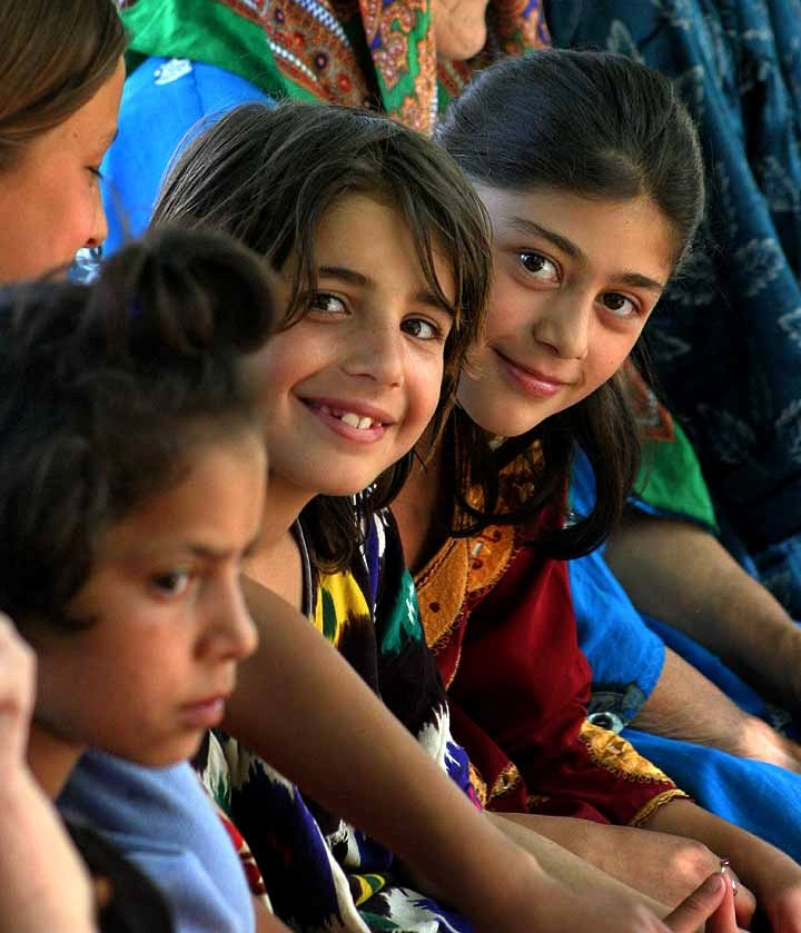 Tajik girls. ئۇيغۇرچە / Uyghurche: تاجىك مىللىتى.